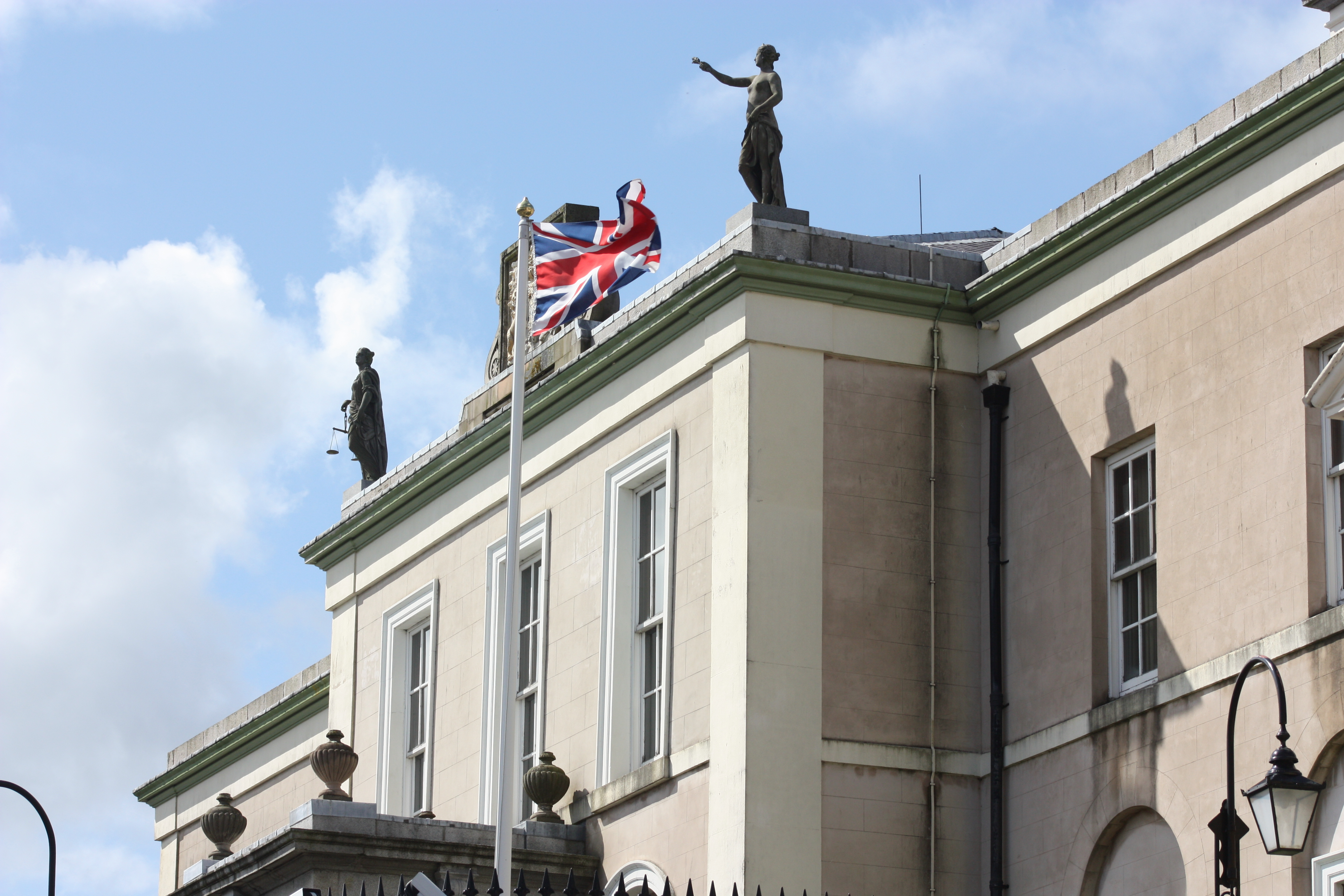 Downpatrick Courthouse, English Street, Downpatrick, County Down, Northern Ireland, August 2009